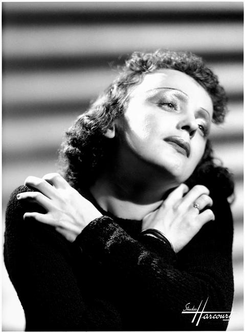 Studio photo